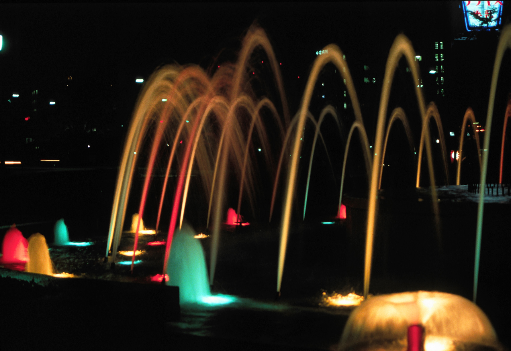 Fountain in Hiroshima, Hiroshima Prefecture, Japan.